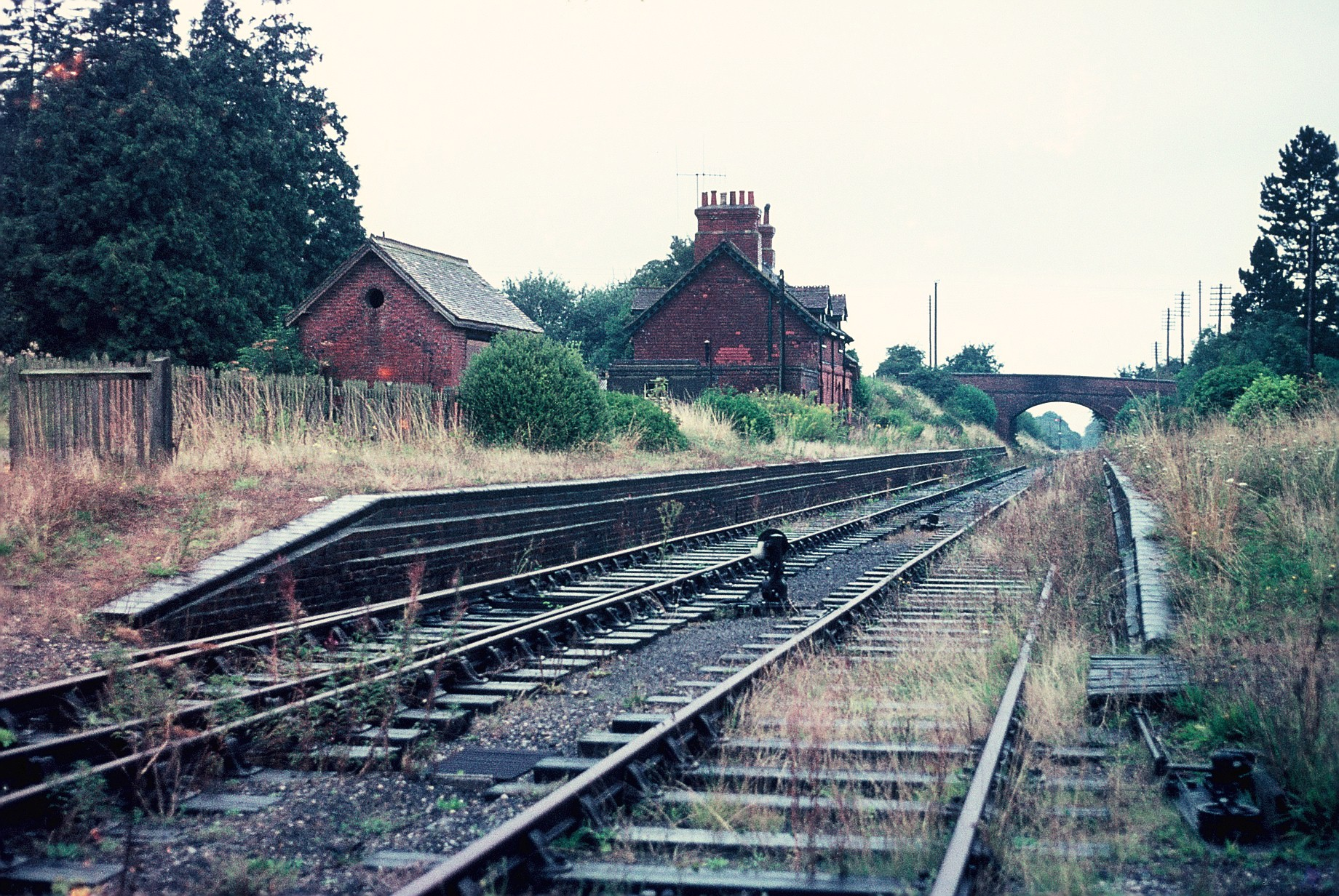 Burghclere railway station looking towards the signal box.